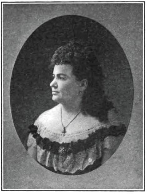 Inez Fabbri (1831-1909) Austrian-American soprano from an 1872 photograph.